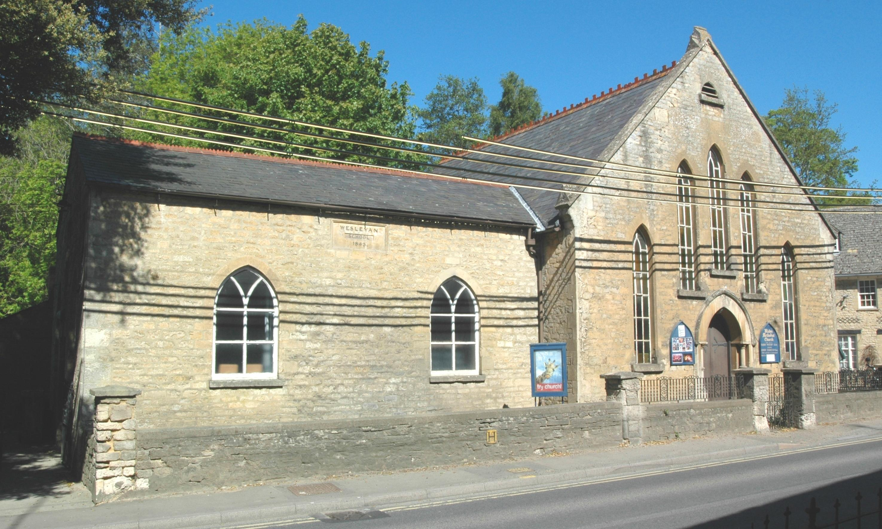 Wesleyan Chapel, Bladon, Oxfordshire, viewed from the southwest. It was built in 1877 and is now Bladon Methodist church.